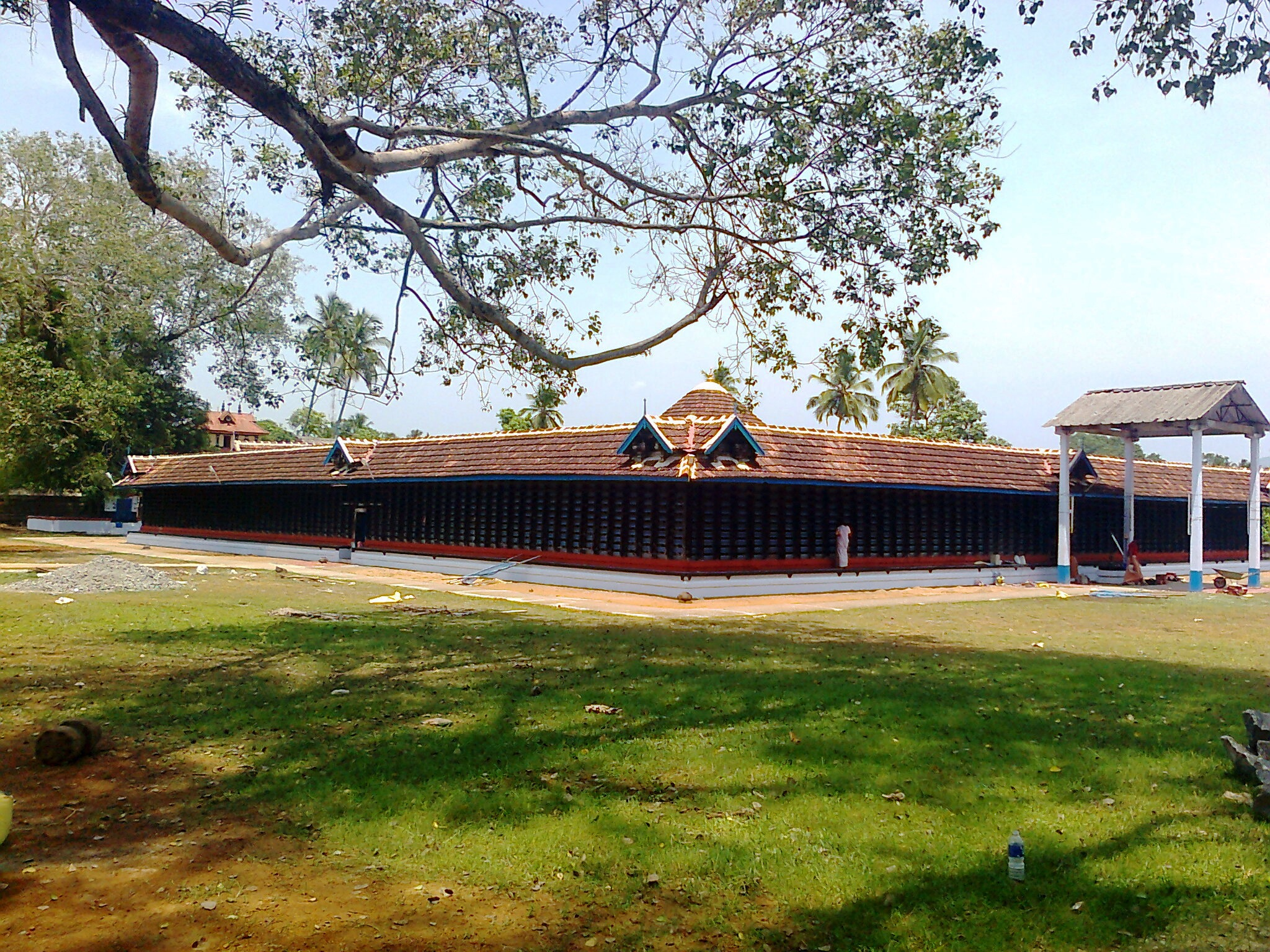 Venganallur Temple, Nalampalam